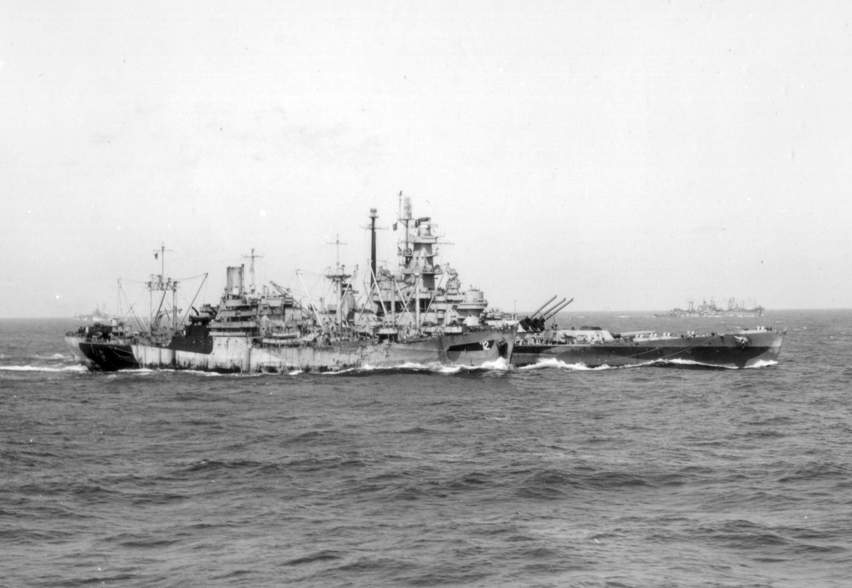 The U.S. Navy battleship USS Massachusetts (BB-59) replenishing from the ammunition ship USS Wrangell (AE-12). Wrangell then retired to San Pedro Bay, Leyte, for upkeep and repairs. Wrangell subsequently returned to the open sea on 8 July 1945 and rendezvoused with TG 30.8 (the redesignated TG 50.8) on the 17th. From 20 July to 1 August 1945, she rearmed 35 ships and hit a high point of transferring 700 tons of ammunition in a single day.